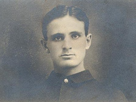 Shows Olivar Asselin in 1899. Cropped version of the prior uploaded photo. Cropped, and healed with GIMP to remove brown marks in the photo.